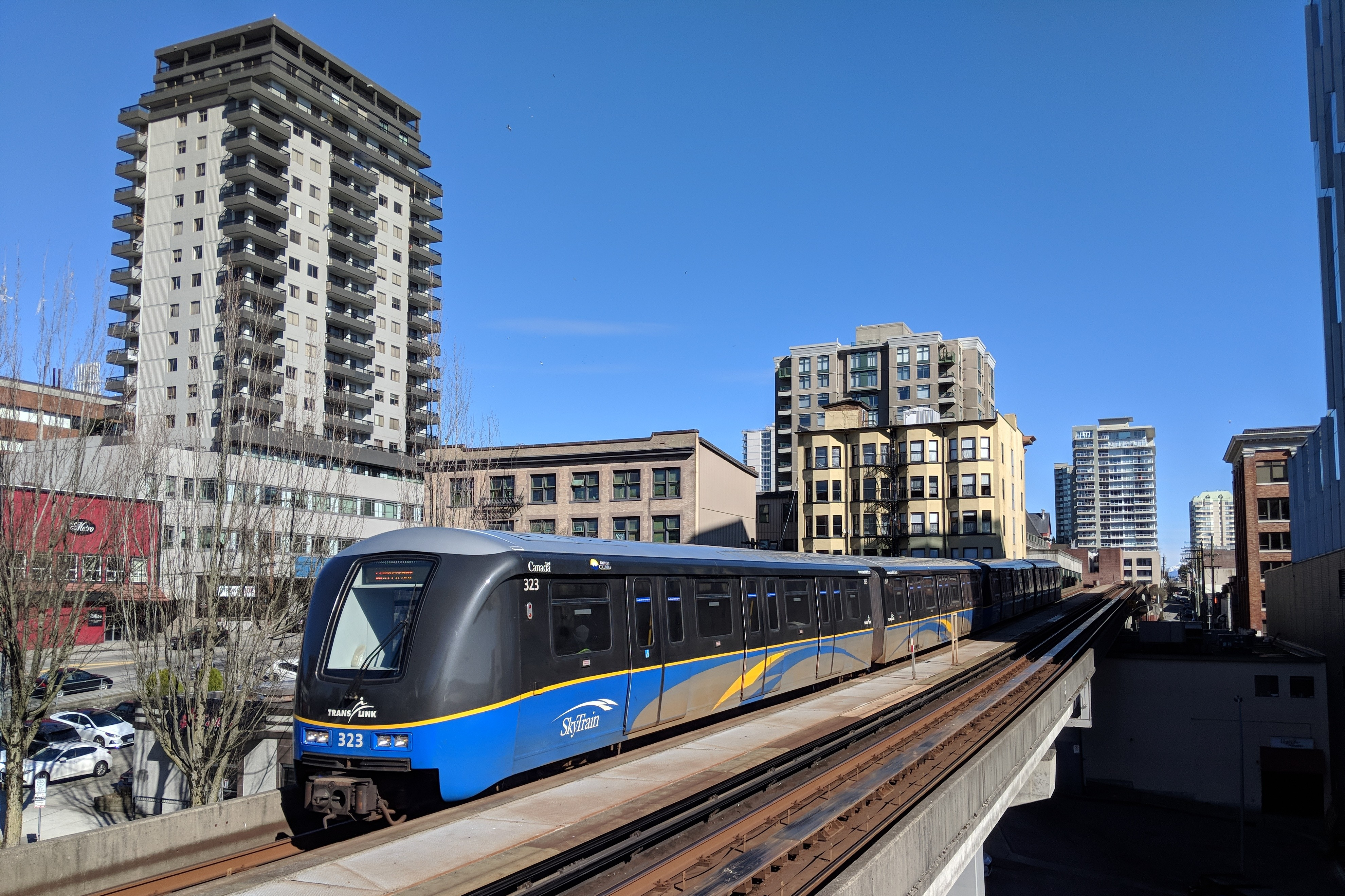 Mark II (second generation) train on the Expo Line in New Westminster, British Columbia.